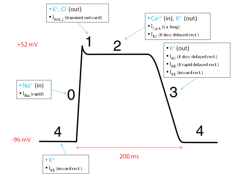 Basic cardiac action potential (with labels) - all languages. Created by User:Quasar 18:07, 7 August 2009 (UTC) to replace File:Action_potential.png